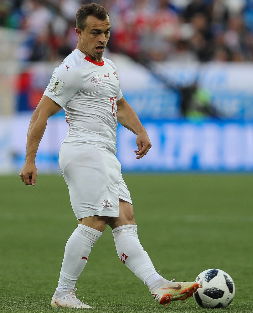 Xherdan Shaqiri